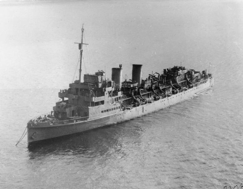 HMS Prinses Astrid At anchor.